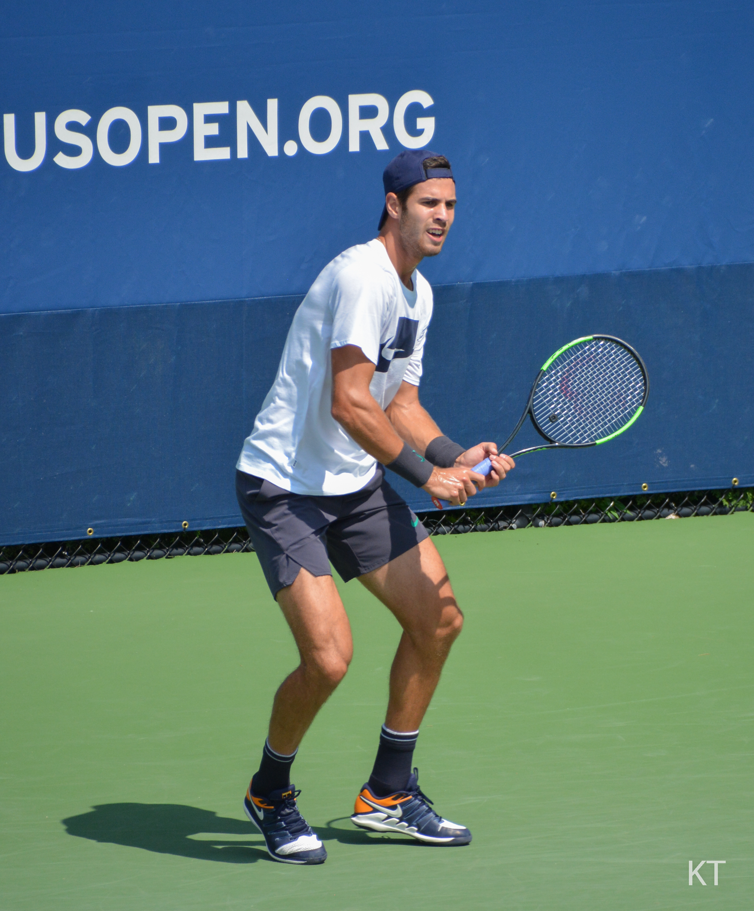 Practice Sunday at the US Open 2018.